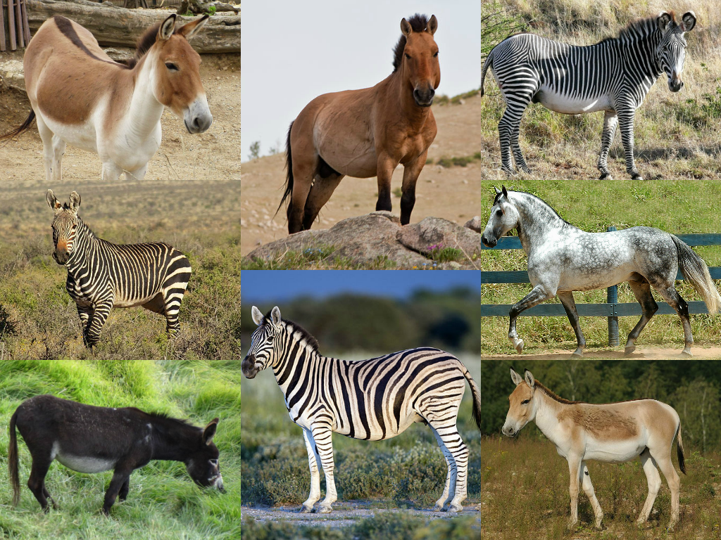 Living species of the genus Equus